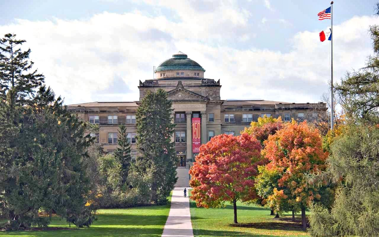 Beardshear Hall, Iowa State University campus.